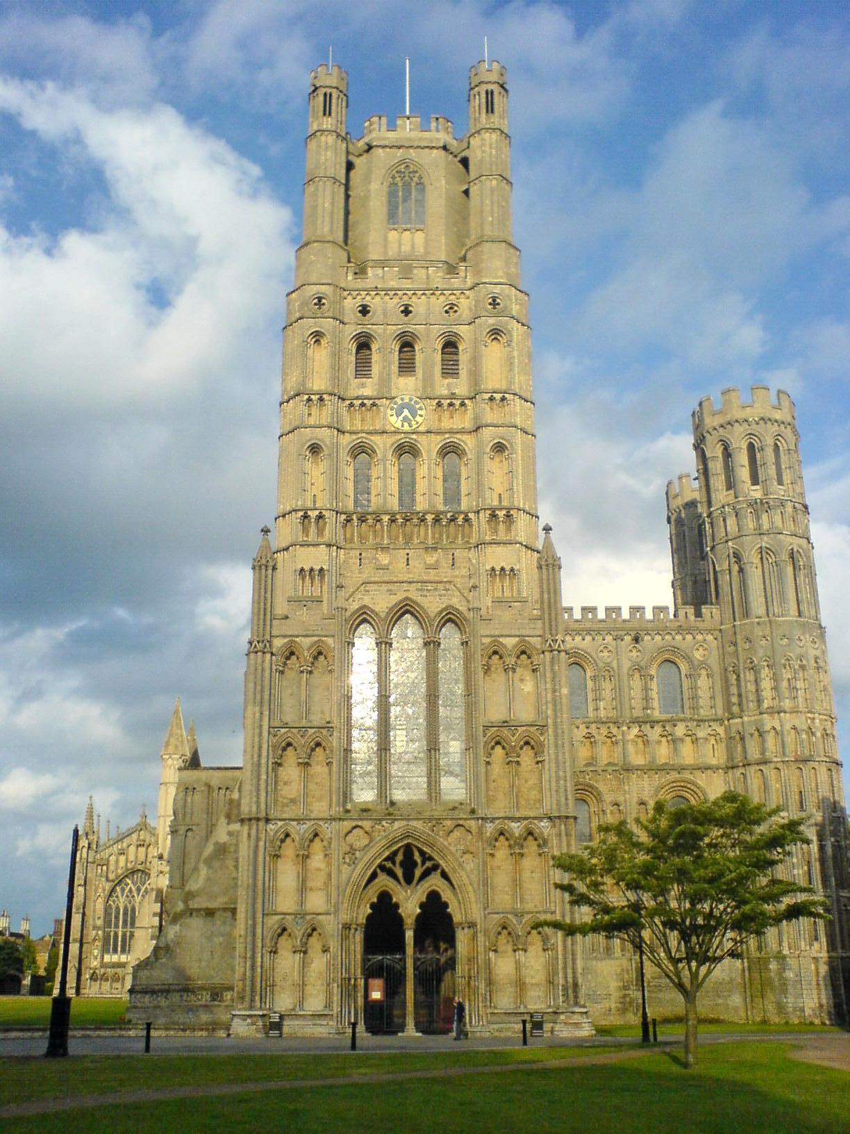 Ely Cathedral